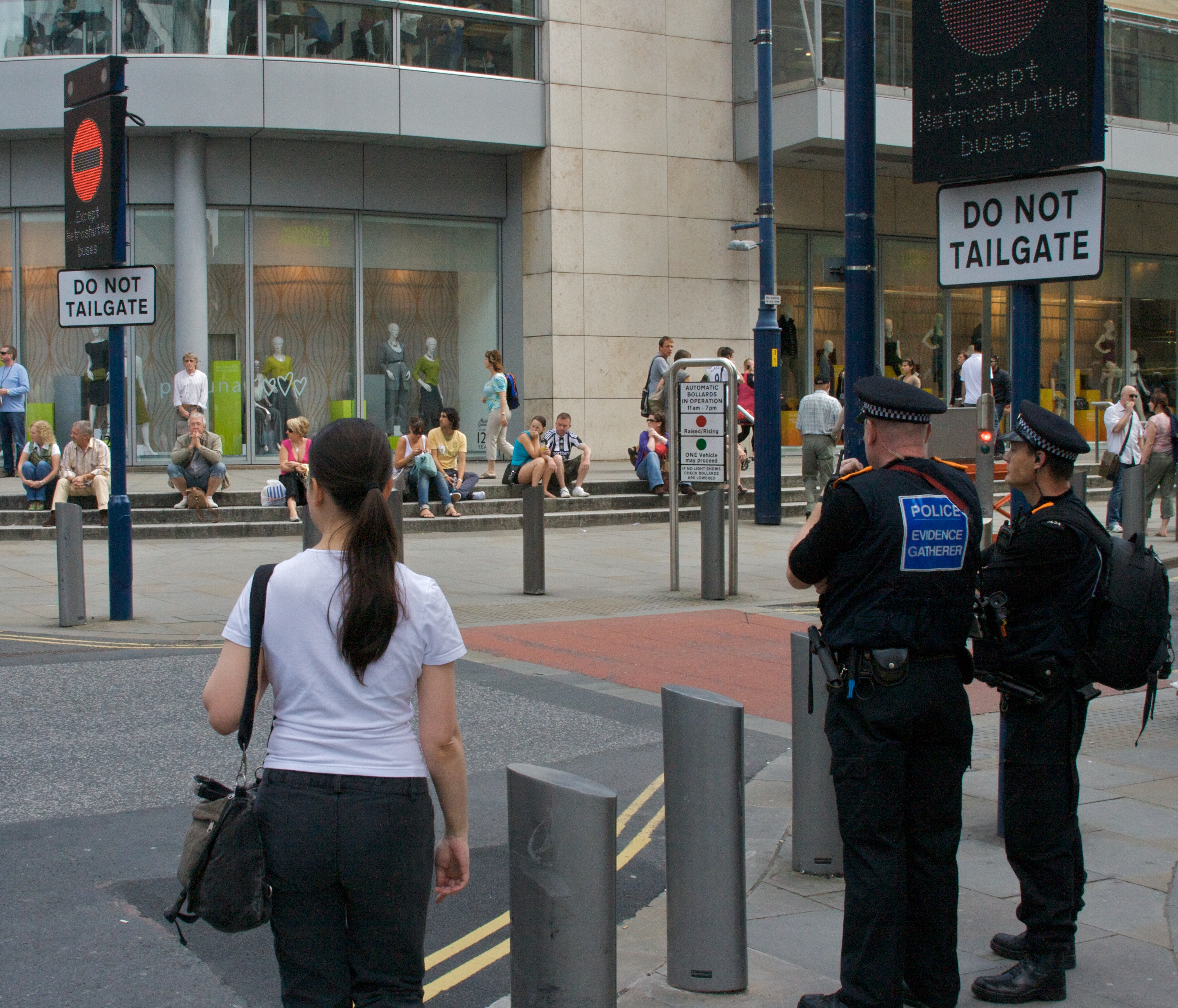 People watching The Hoochie Coochie Mancunian, and two FIT police surveillance officers watching the people. They were probably out to photograph Celtic fans rather than blues buskers, but you never know nowadays. This is also showing one of the infamous automatic bollards which occasionally prang cars that try to sneak through by tailgating a bus. I've got little sympathy for most of the drivers caught like this - if they're not paying enough attention to see all the signs then maybe they shouldn't be driving.